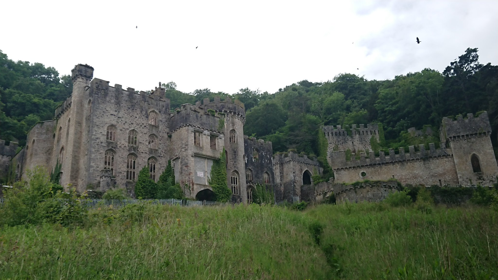 A photo of Gwrych Castle , Abergele, Wales taken in June 2018